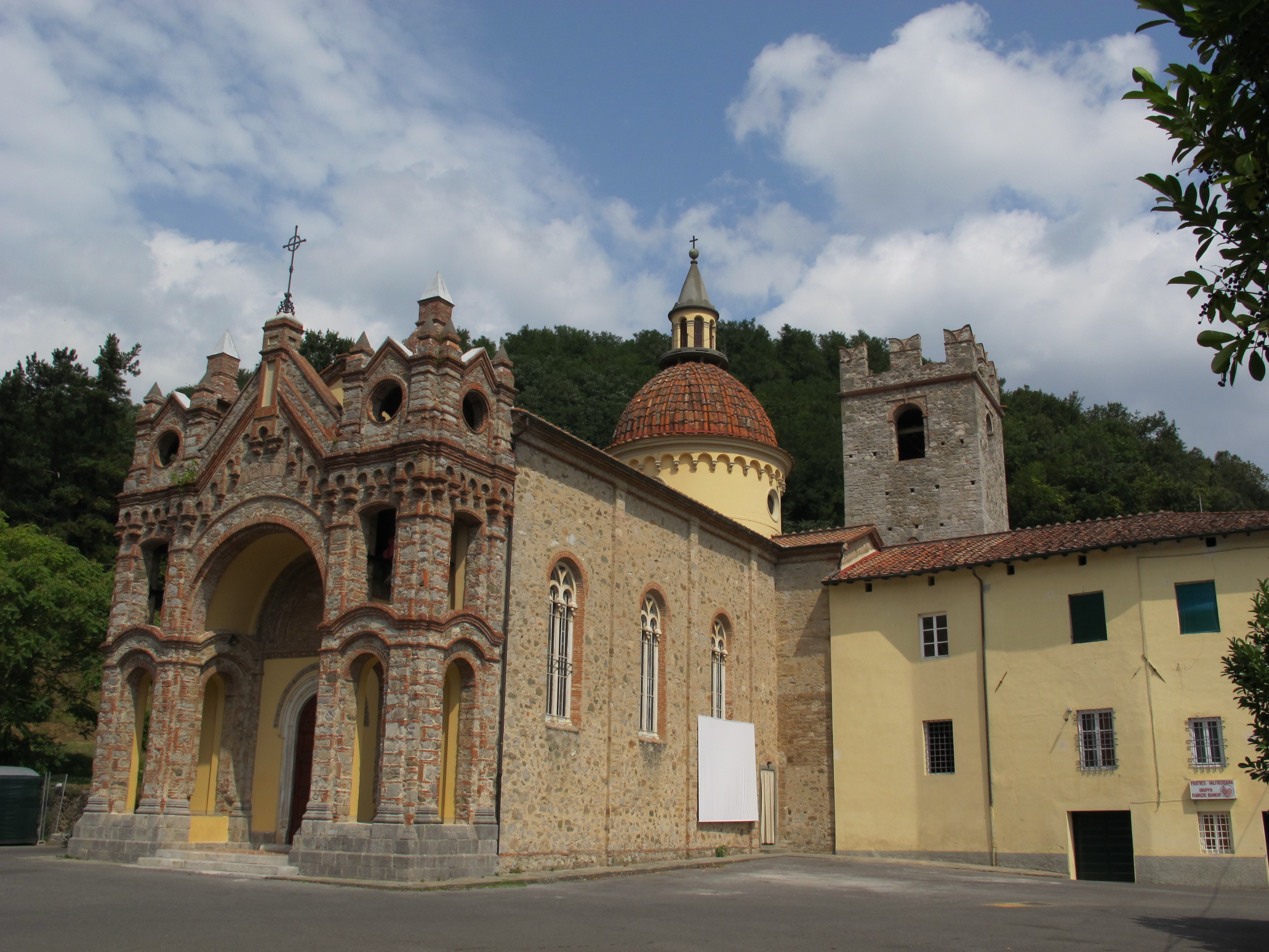 San Martino in Freddana